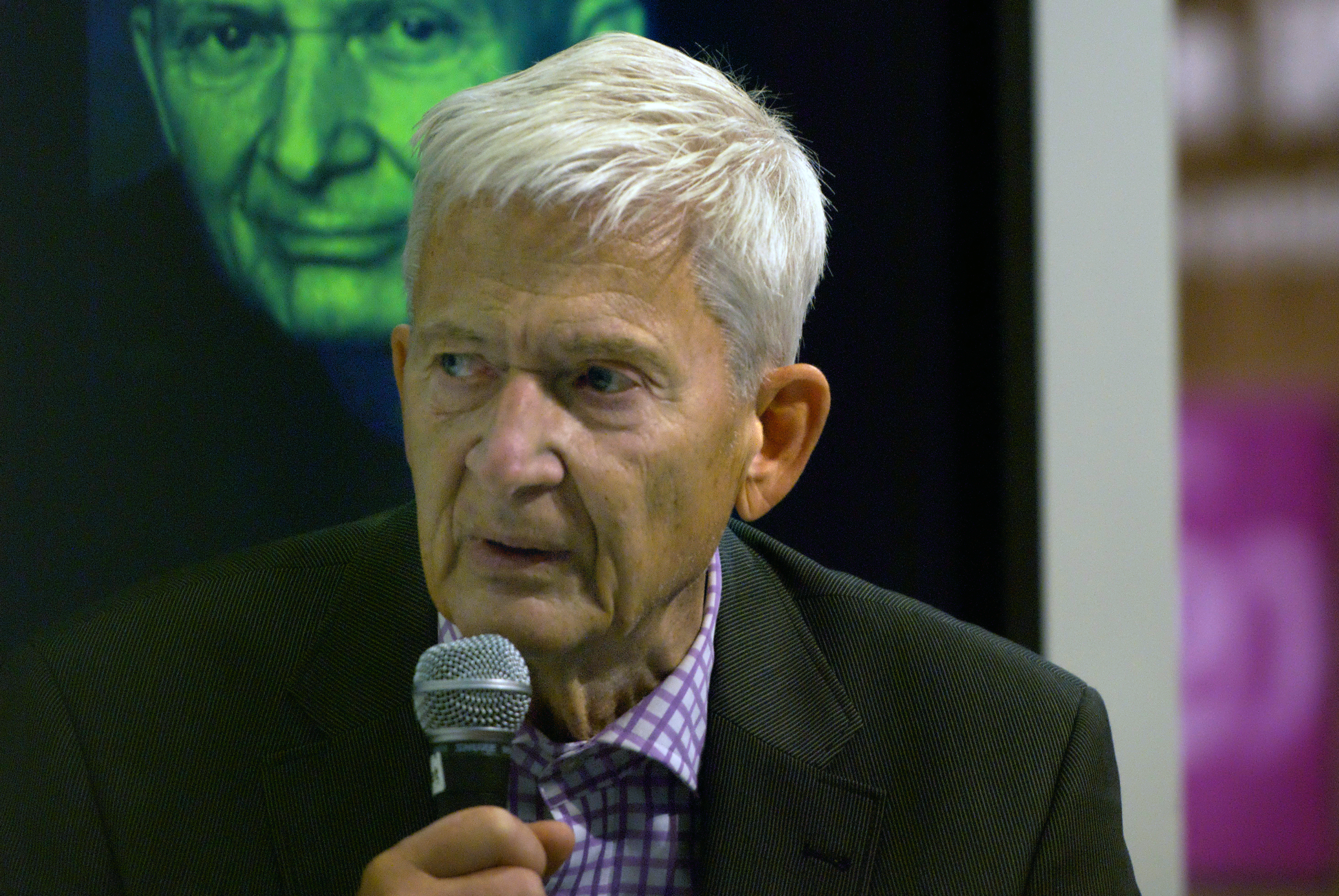 P.O. Enquist at Göteborg Book Fair 2011.